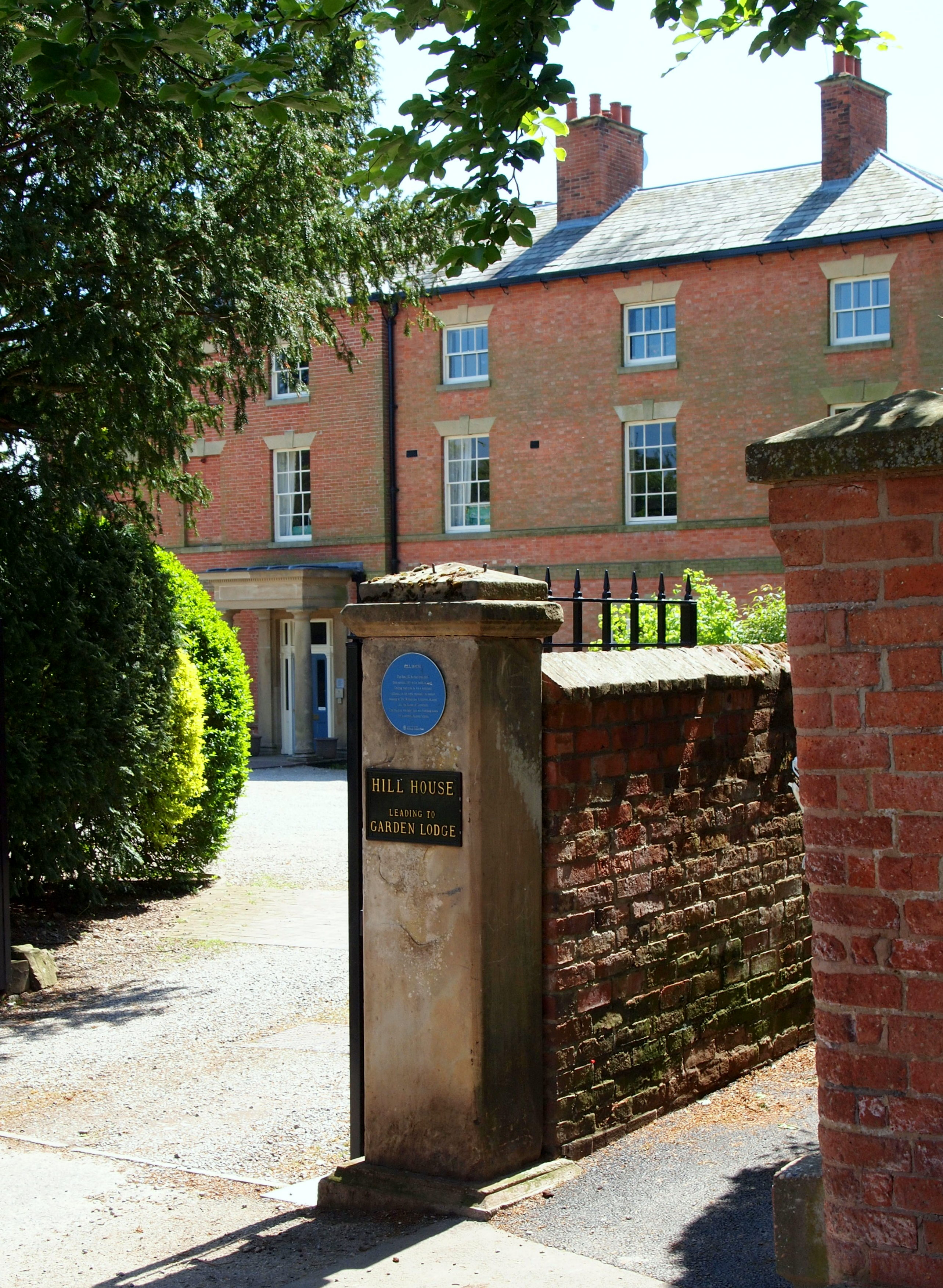 Southwell NG25, Notts.